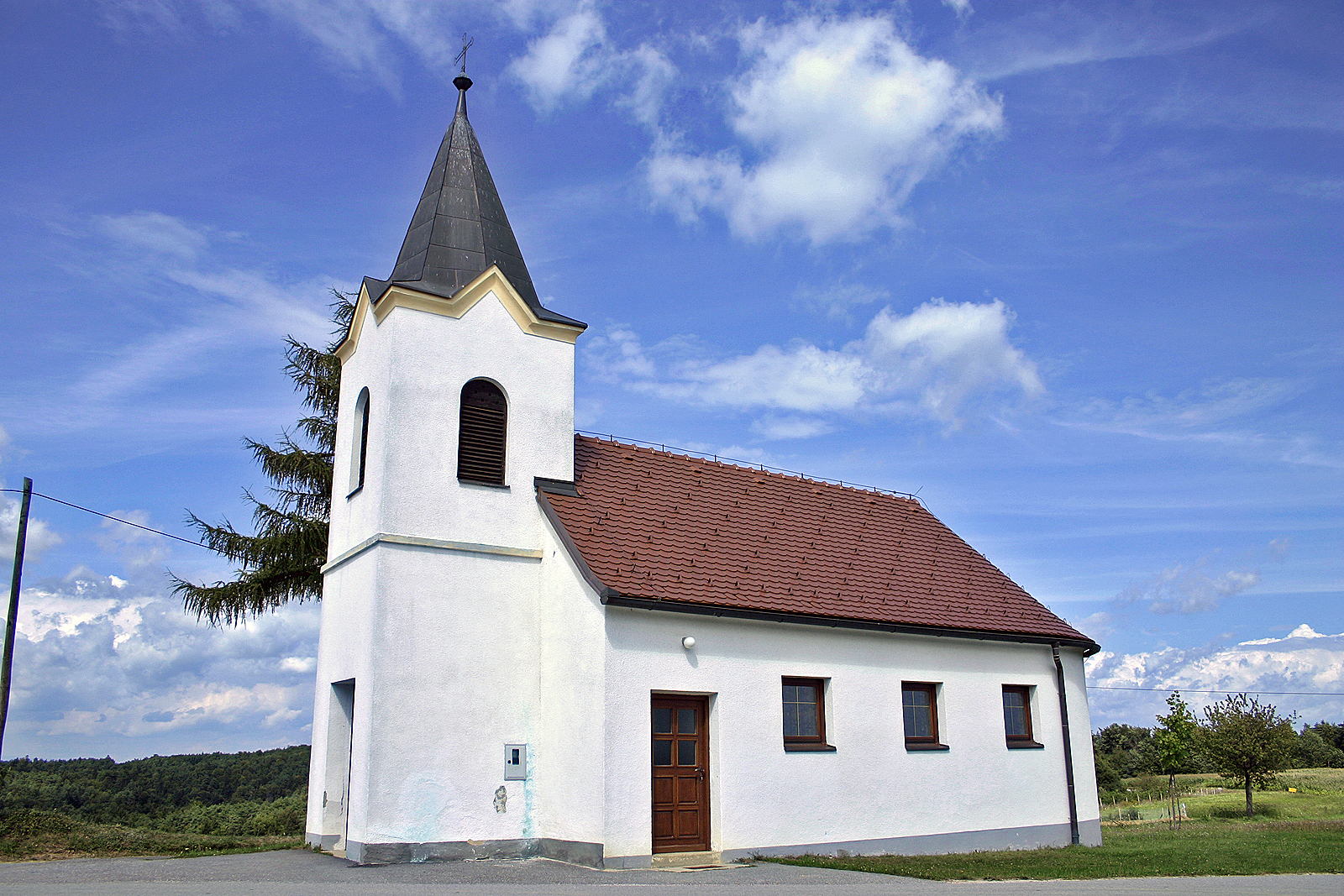 Chapel Otovci Slovenia